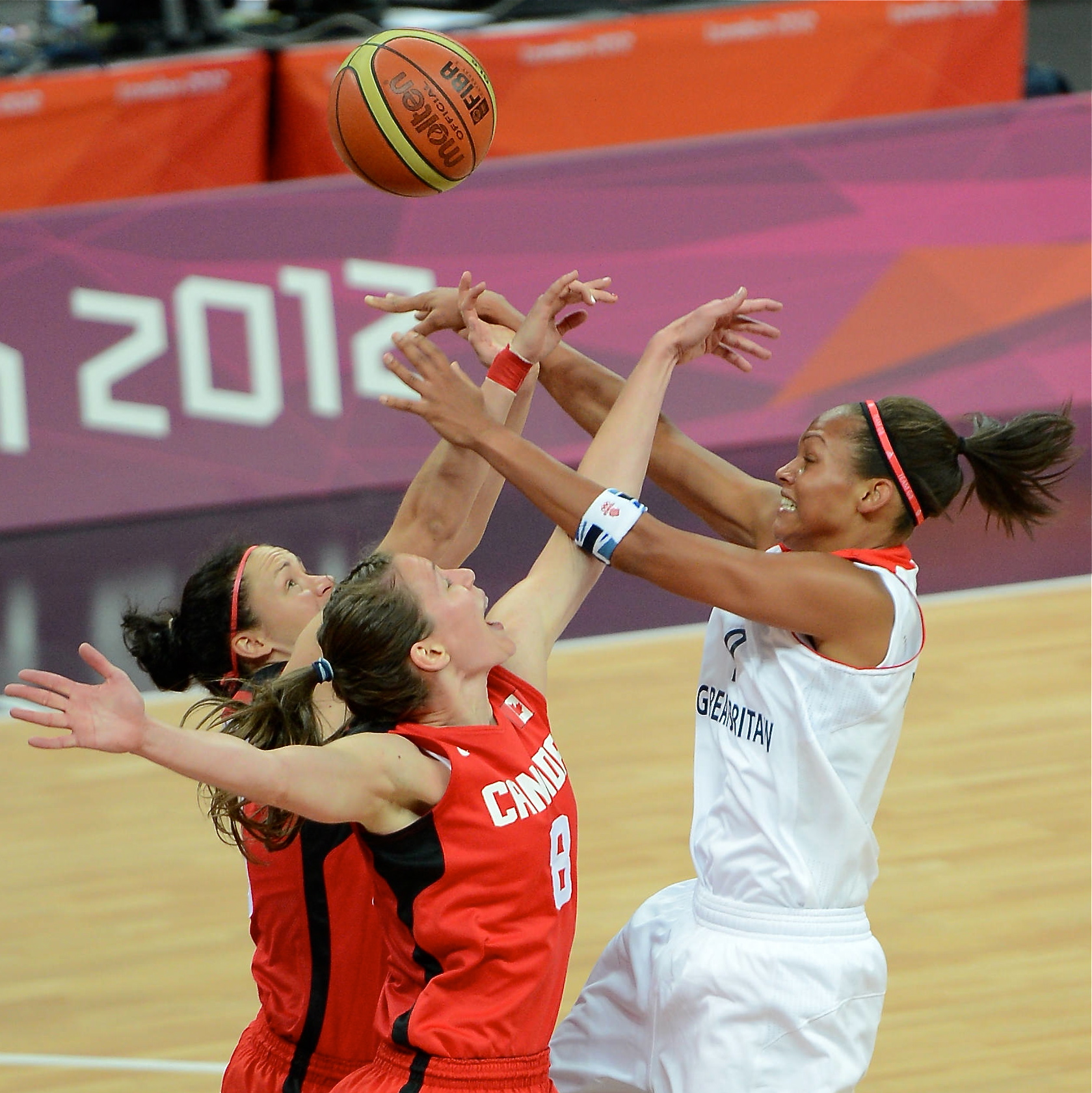 Posted via email from Globalite Magazine